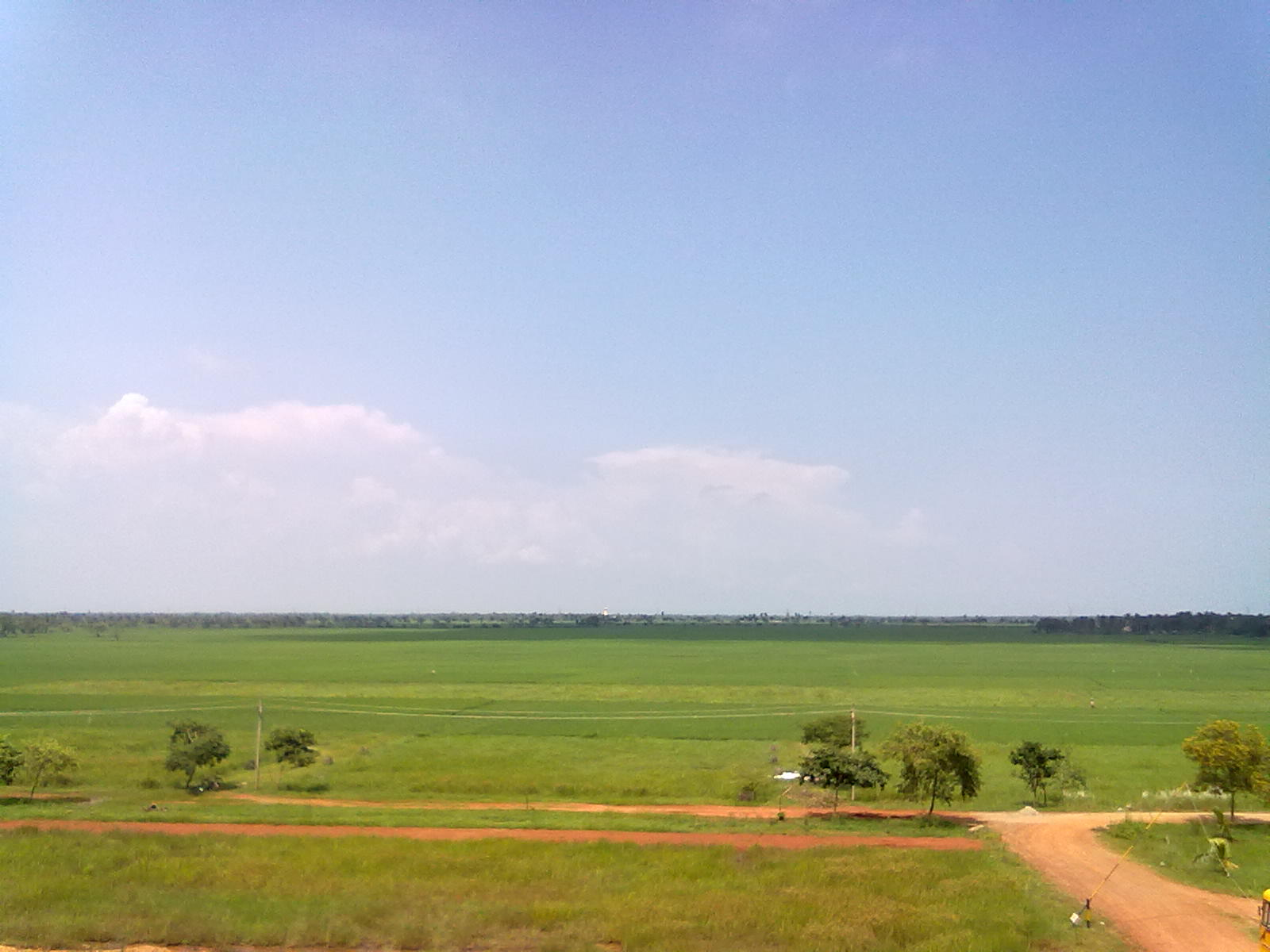 near kakinada town field's look like this